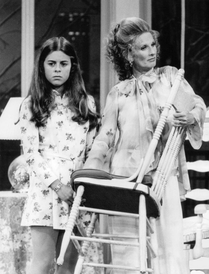 Photo of Lisa Gerritsen as Bess Lindstrom and Cloris Leachman as her mother, Phyllis, from The Mary Tyler Moore Show.